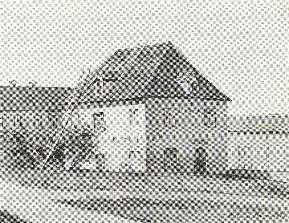 Picture of the old school in Örebro Sweden 1872.